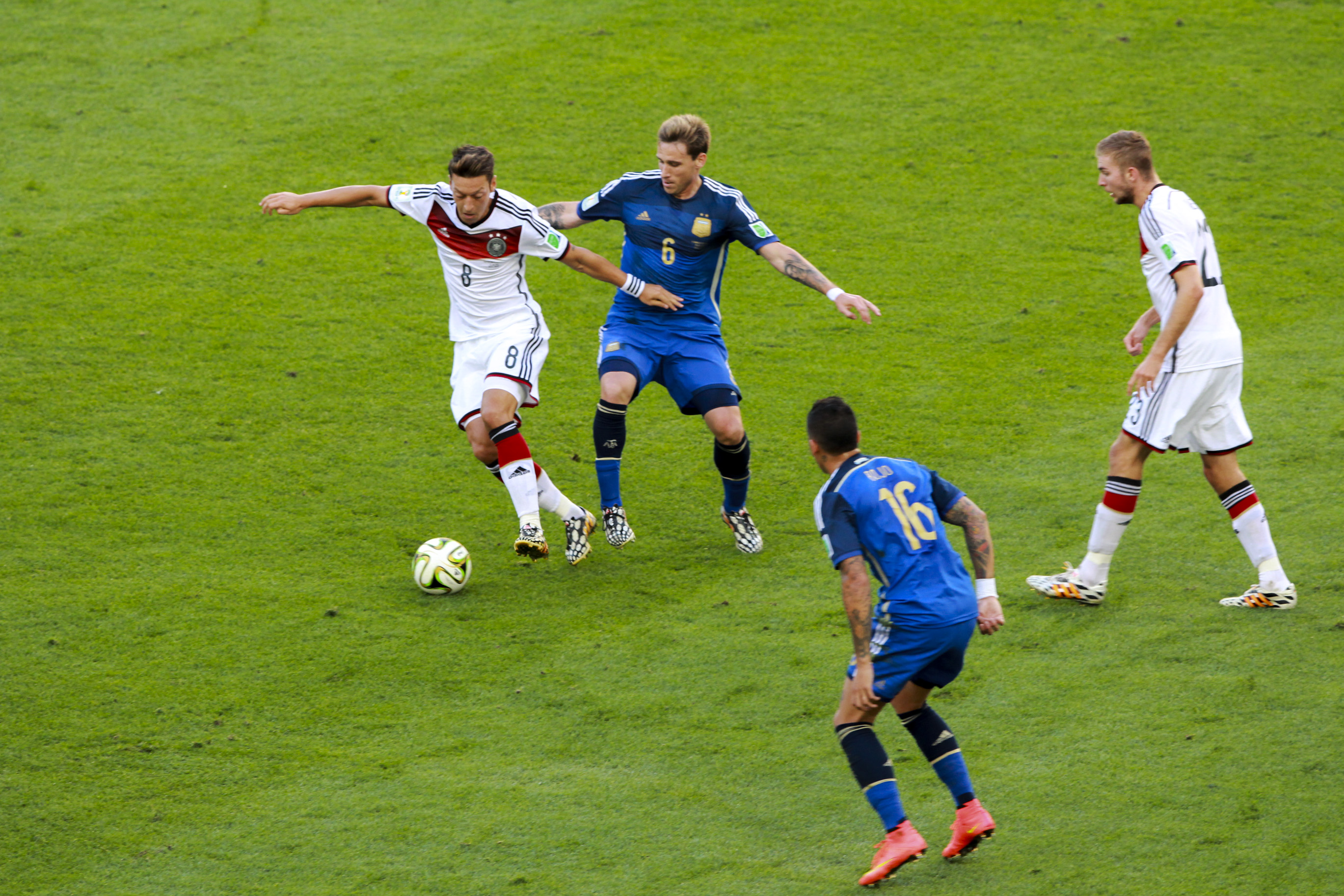 The final match of World Cup 2014 between Germany and Argentina 2014-07-13